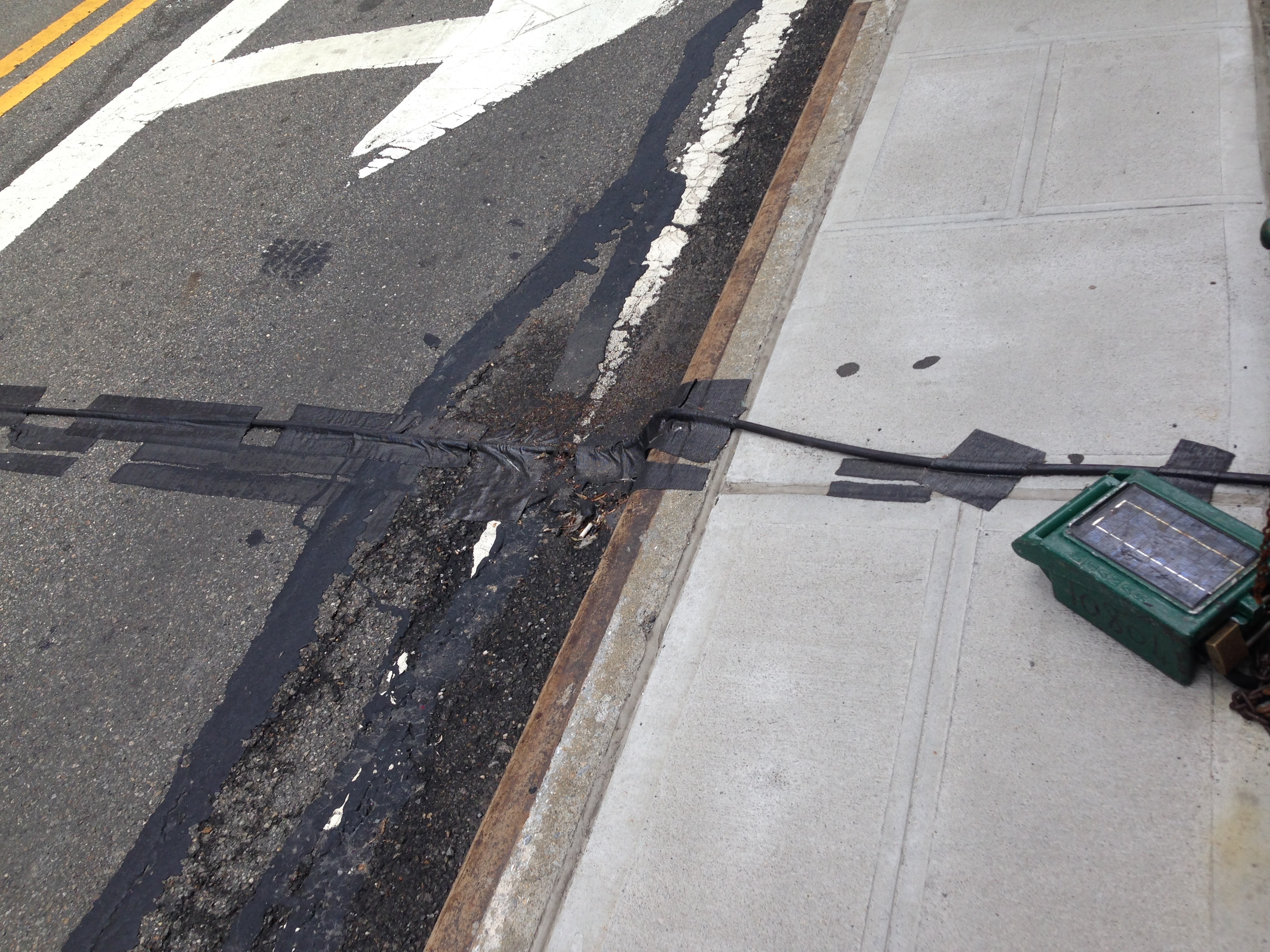 Pneumatic road tube counter